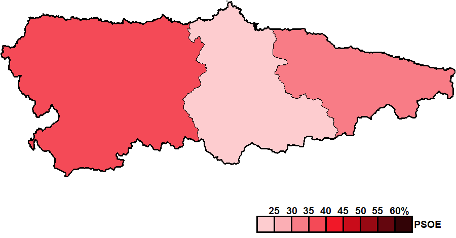 District results for the 2015 Asturian regional election.